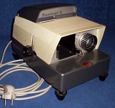 The Paximat series was one of the first semi-automatic series of straight tray 35 mm slide projectors. It was manufactured by German optics company Carl Braun, Nuremberg. This specimen uses a Wilhelm Will, Wetzlar, projection lens Super-Stellar with a solid aluminum barrel. Aperture is given as 1:2.5, focal length 85 mm.